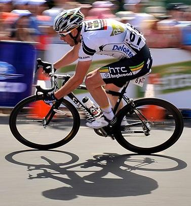 Matthew Goss winning the Jayco Bay Cycling Classic 2011